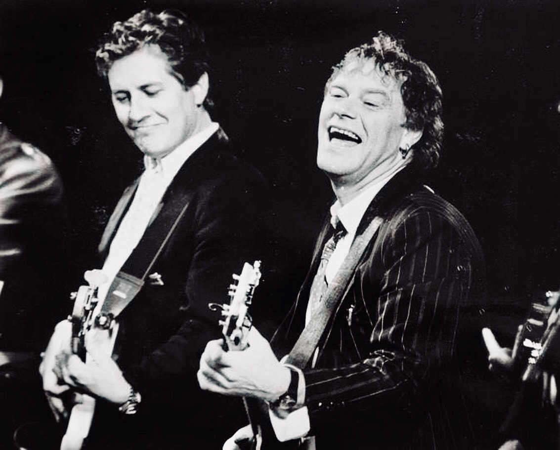 Musician Kim Larsen Henning Pold Bellami